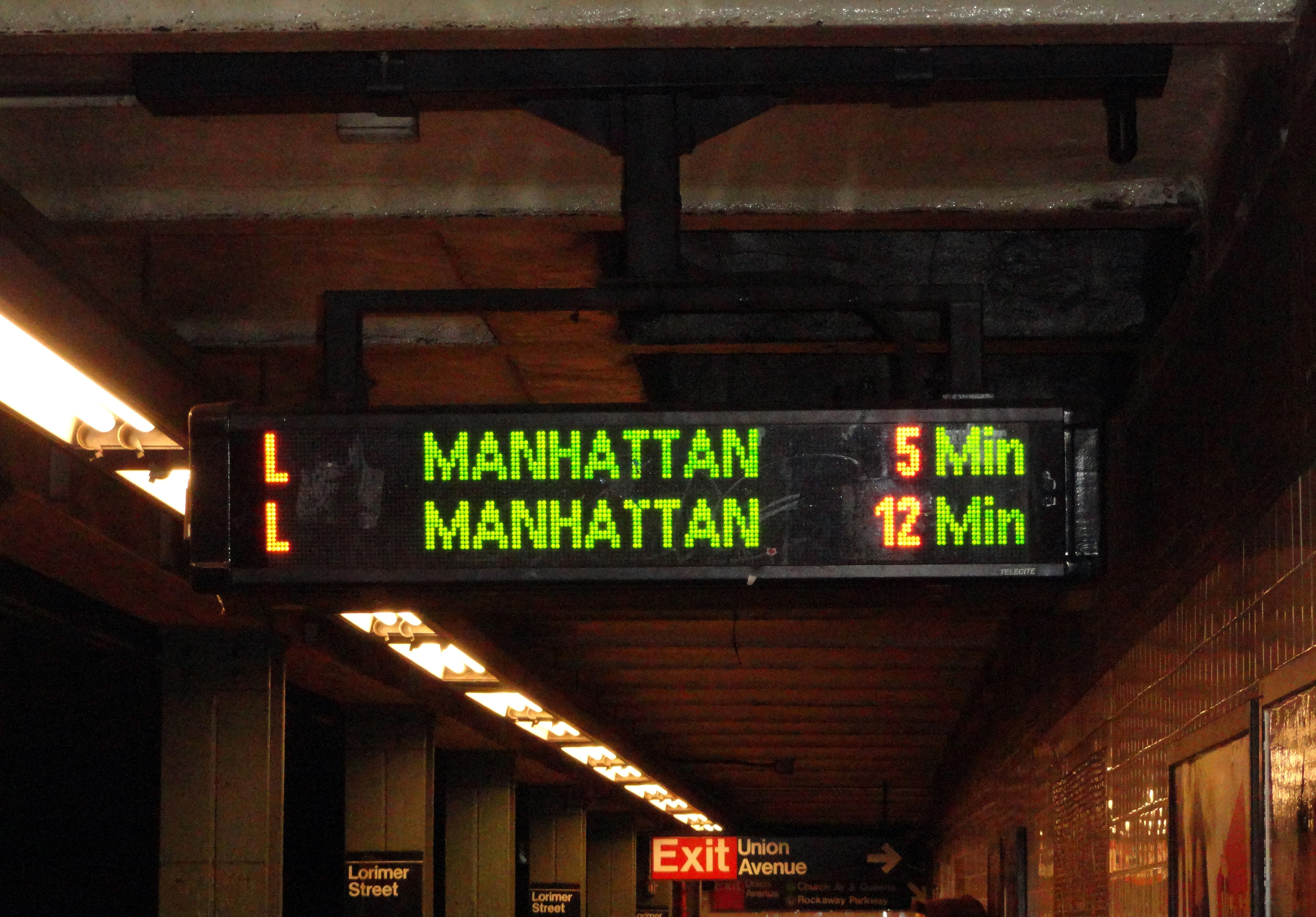 View of countdown clock sign at Lorimer Street station, Brooklyn, New York City Subway.